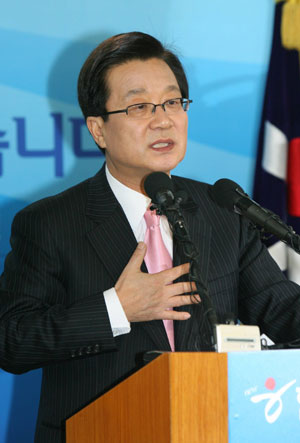 Kang Jae-seop